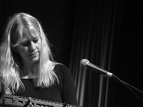 Irene Becker (2011)